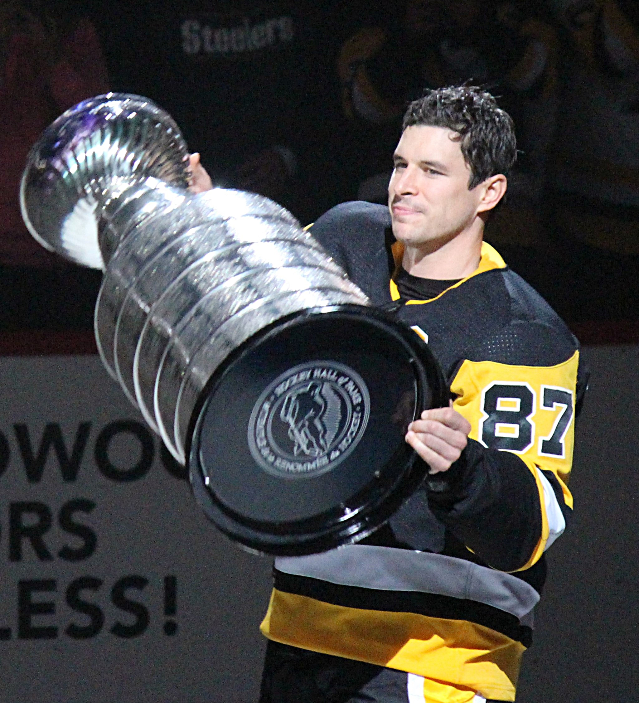 Pittsburgh Penguins captain Sidney Crosby skates with the Stanley Cup during a pregame ceremony before a game against the St. Louis Blues, October 4, 2017, at PPG Paints Arena in Pittsburgh, PA.